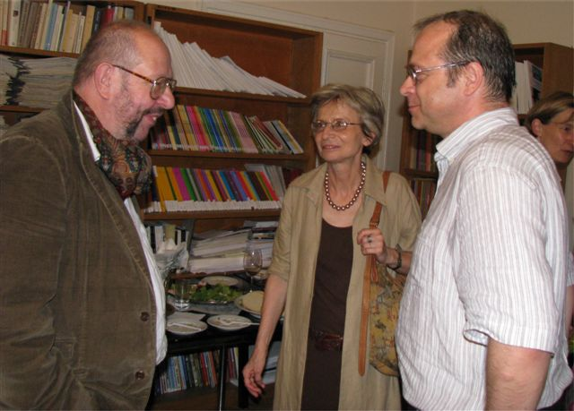 Leszek Engelking (b. February 2, 1955 in Bytom, Poland) – Polish poet, short-story writer, critic, essayist, scholar, and translator, and Małgorzata Łukasiewicz (b. 1948), Polish essayist and translator, and Jerzy Jarniewicz (b. 1958), Polish essayist and translator.